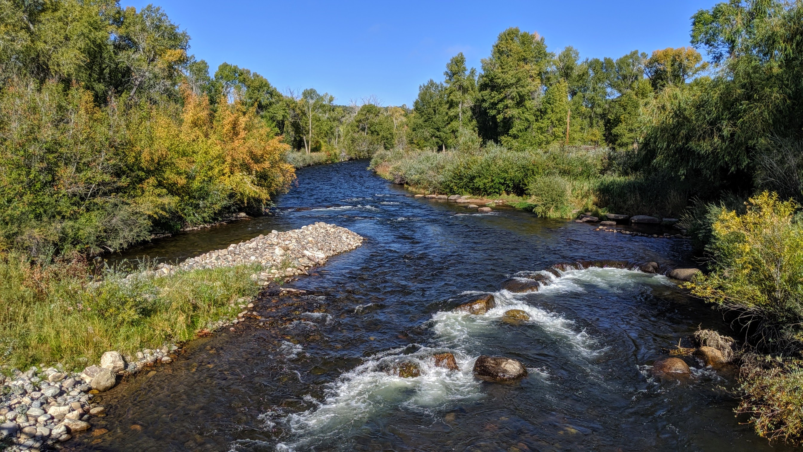 Los Pinos River looking north, at business 160, Bayfield Parkway, in Bayfield, Colorado